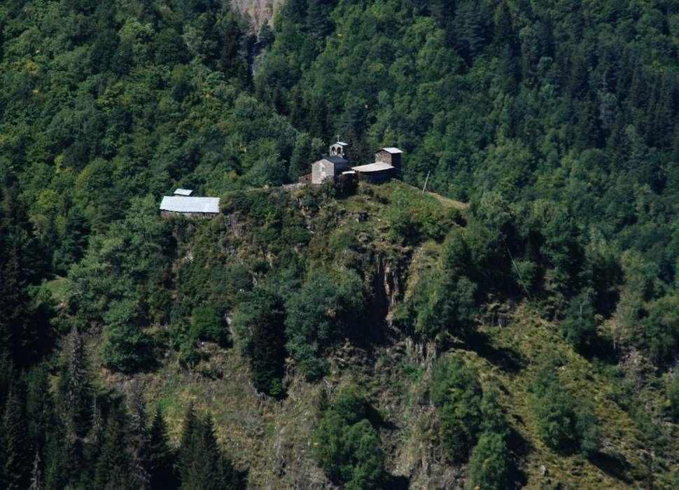 Kvirike monastery at Khe, Georgia.